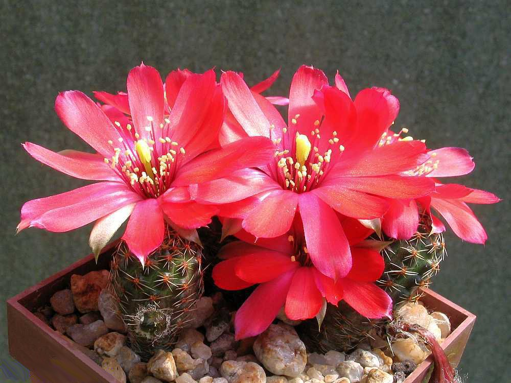 Rebutia pygmaea (Rebutia colorea Ritter) - cultivated plant (seed marked FR1106) from own collection.